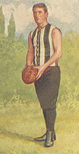 Ted Rowell, Australian rules footballer in the 1900s for the Collingwood Football Club.